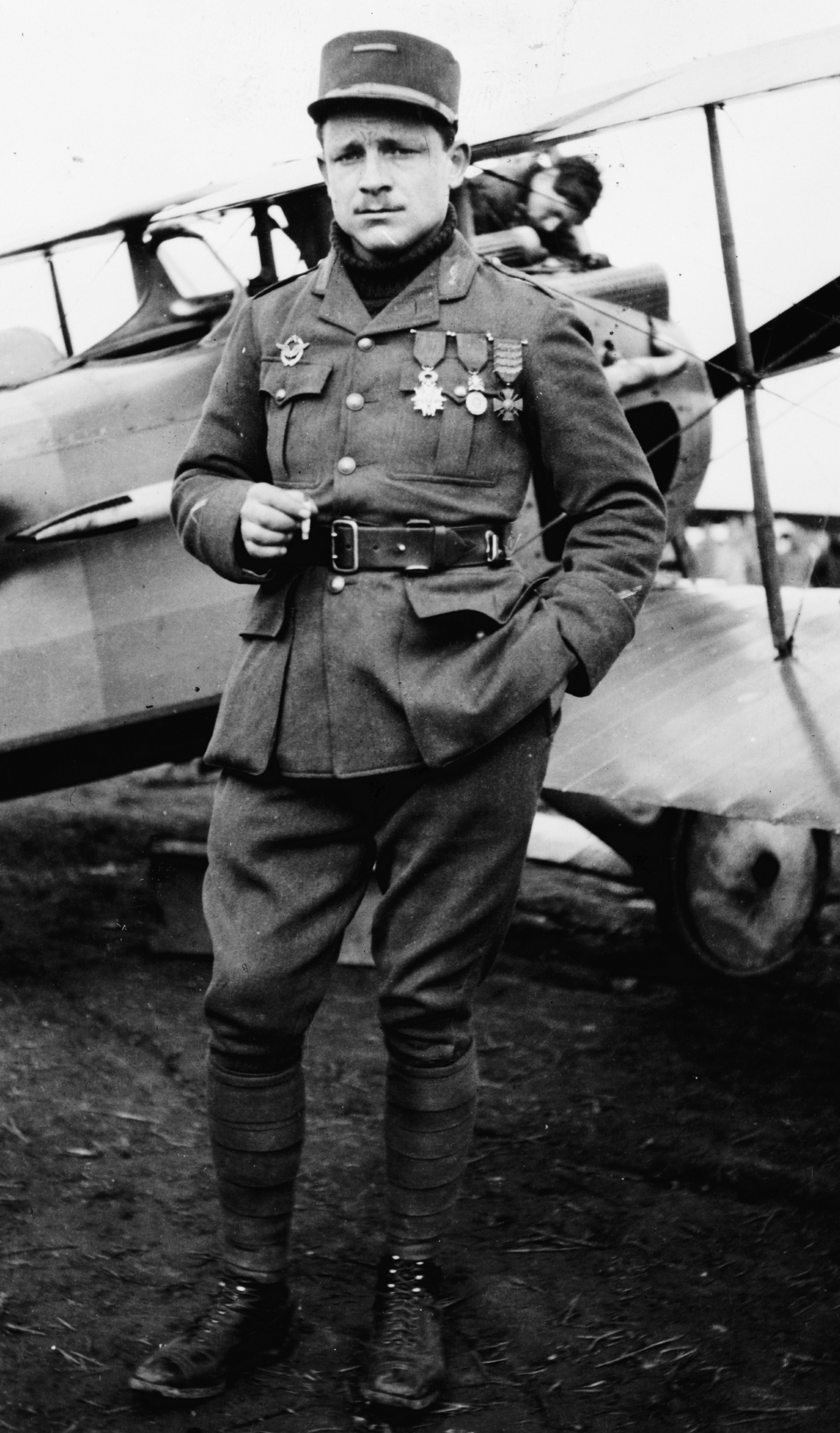 Portrait photo of Gervais Raoul Lufbery (1885-1918); cropped by uploader.